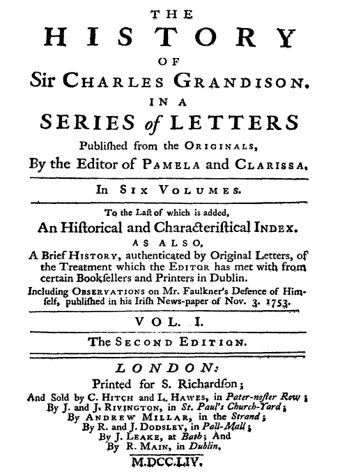 The History of Sir Charles Gradison, in a Series of Letters. The title page of an epistolary novel by Samuel Richardson, published in February 1753, printed for S. Richardson. Richardson, Samuel. The History of Sir Charles Grandison. Eighteenth Century Collections Online. Author has been dead for over 100 years.